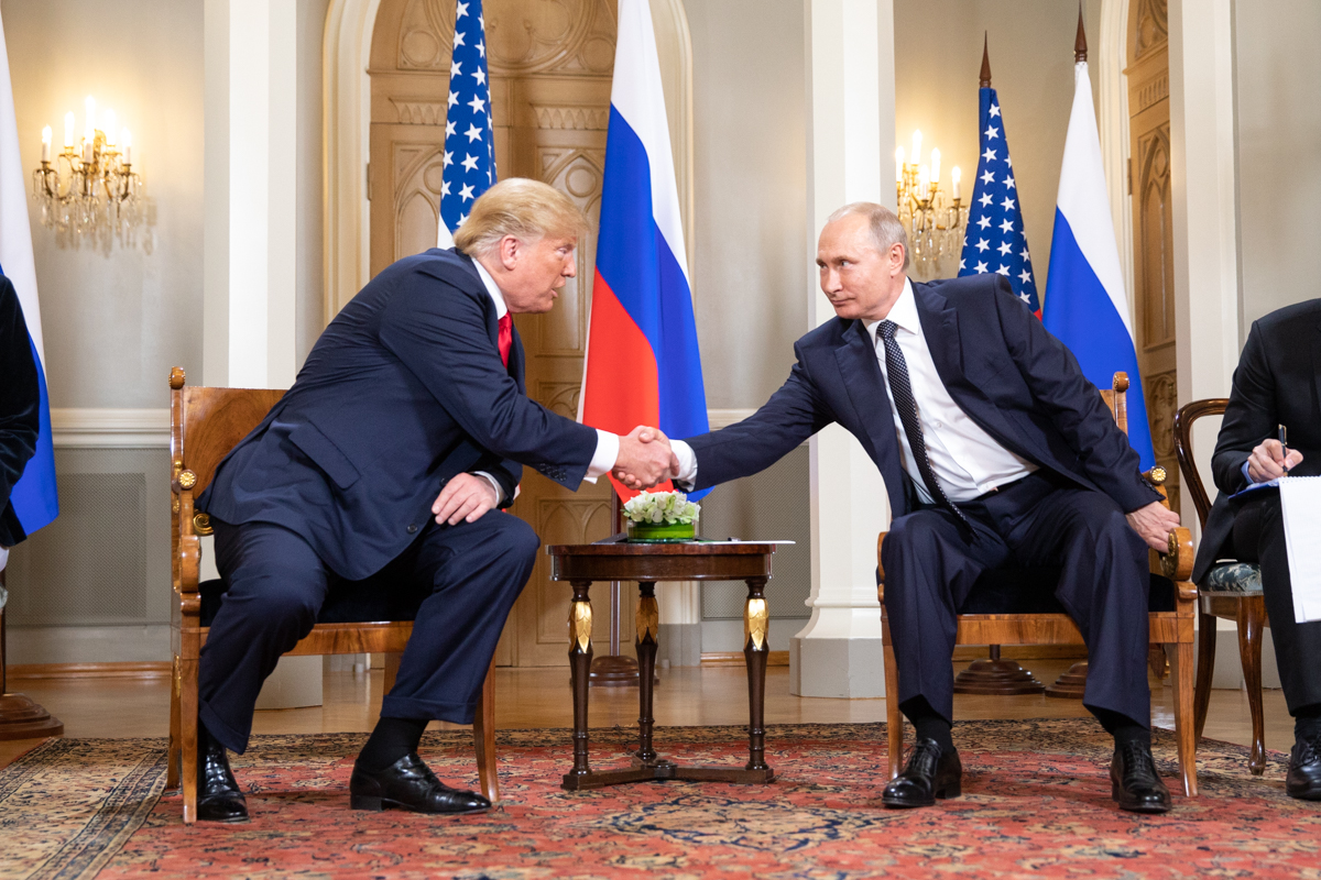 President Donald J. Trump and President Vladimir Putin of the Russian Federation / July 16, 2018 (Official White House Photo by Shealah Craighead)